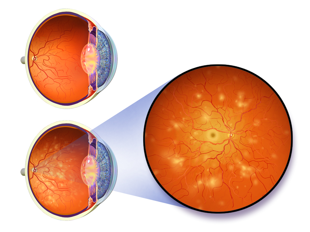 Diabetic Retinopathy. See a full animation of this medical topic